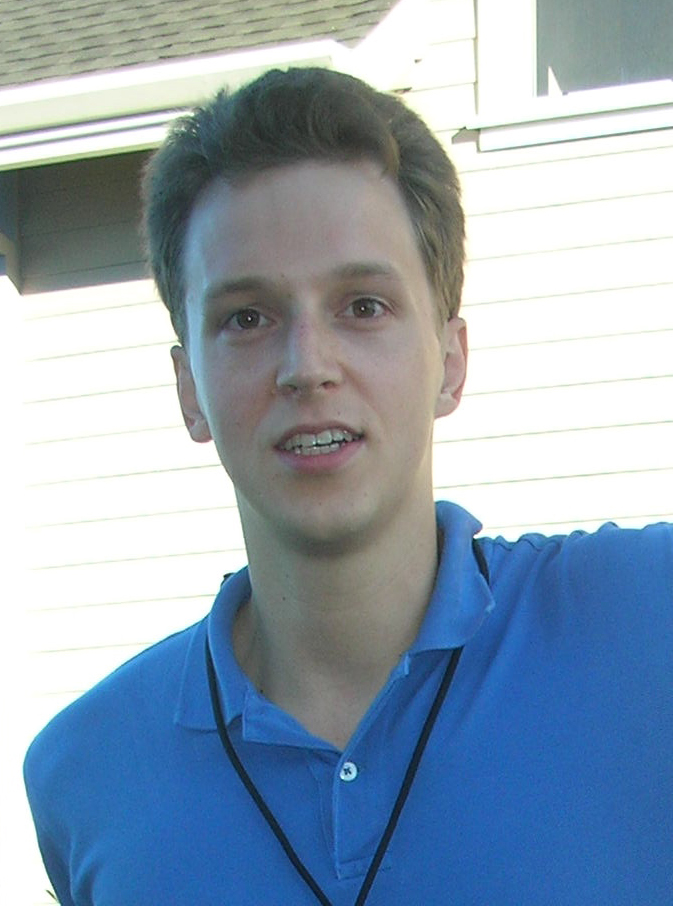 Nat Friedman, Chief Technology and Strategy Officer for Open Source at Novell.